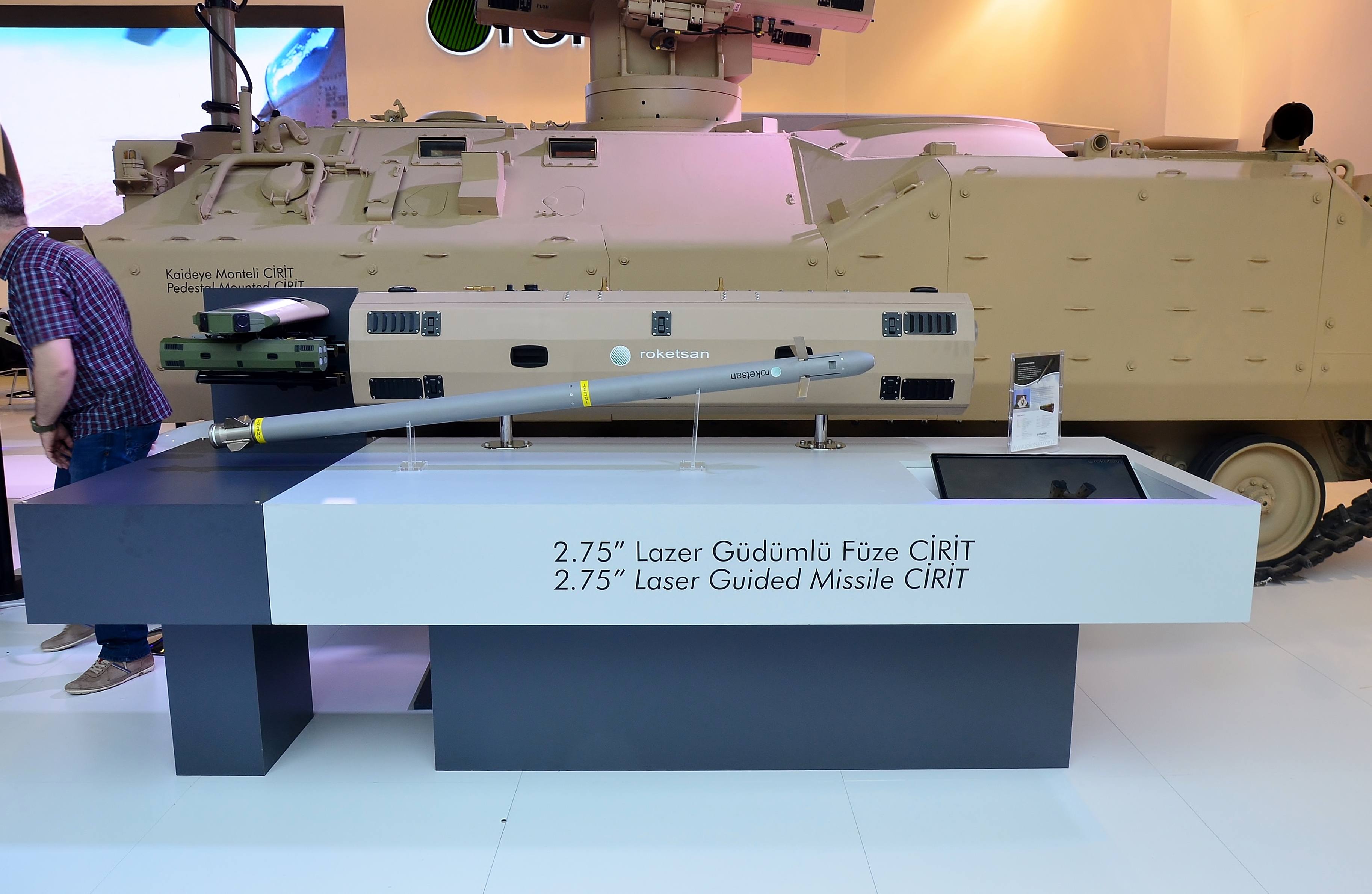 Laser guided missile CİRİT of Roketsan at IDEF 2015